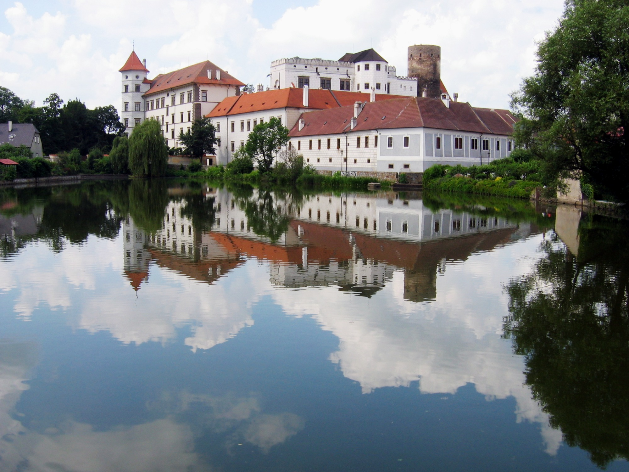 Jindřichův Hradec castle (Neuhaus castle) in the South Bohemian Region